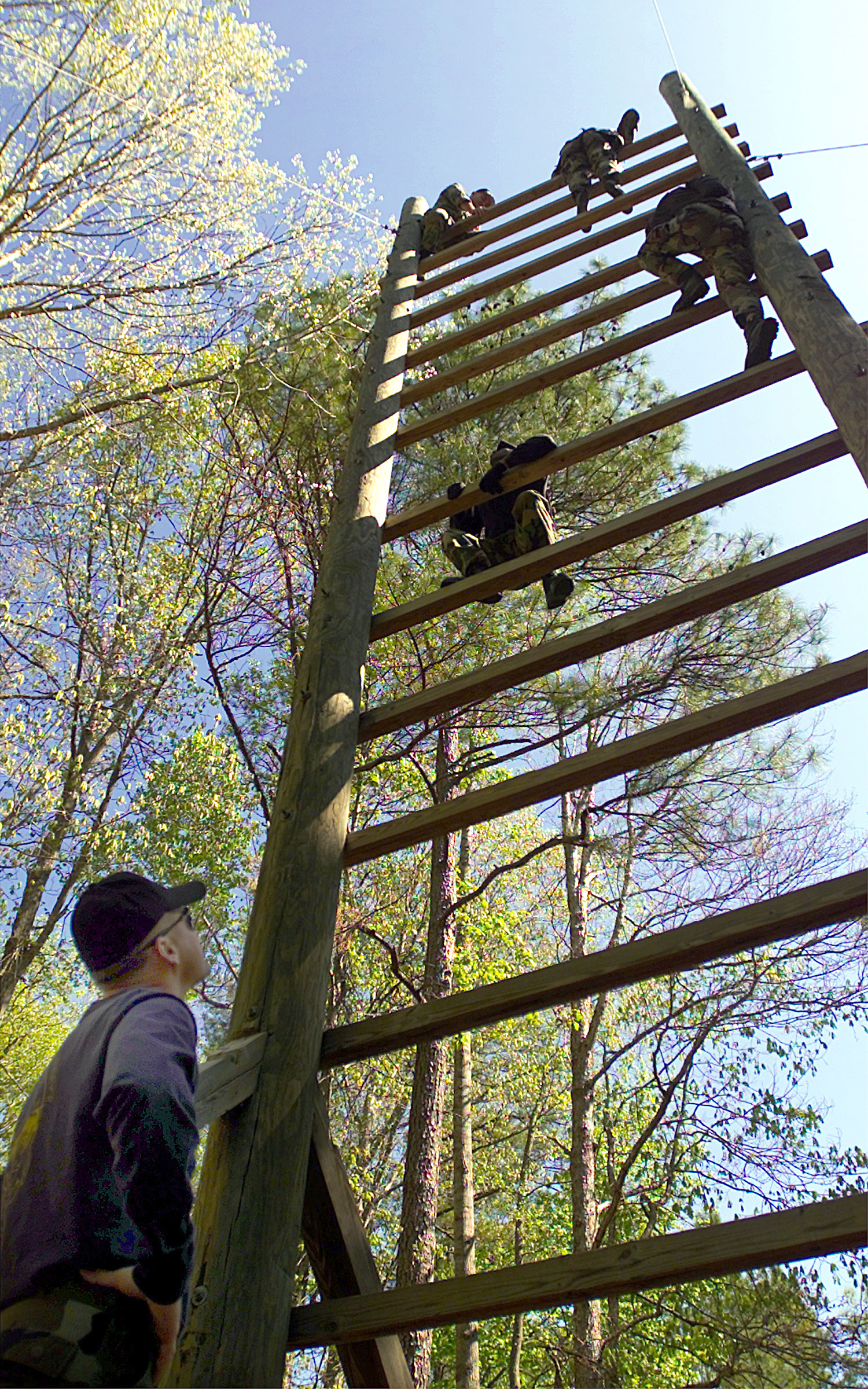 Fort Pickett, VA (Apr. 23, 2002) -- Operations Specialist 2nd Class Lyn Dunn coaches members of his SWAT team over the "stairs" obstacle during the confidence course phase of Basic SWAT team training. The team, from Naval Weapons Station Yorktown, VA, joined other local law enforcement agencies in a week-long training effort to practice basic SWAT team procedures. U.S. Navy photo by Chief Photographer’s Mate William T. Wynn. (RELEASED)